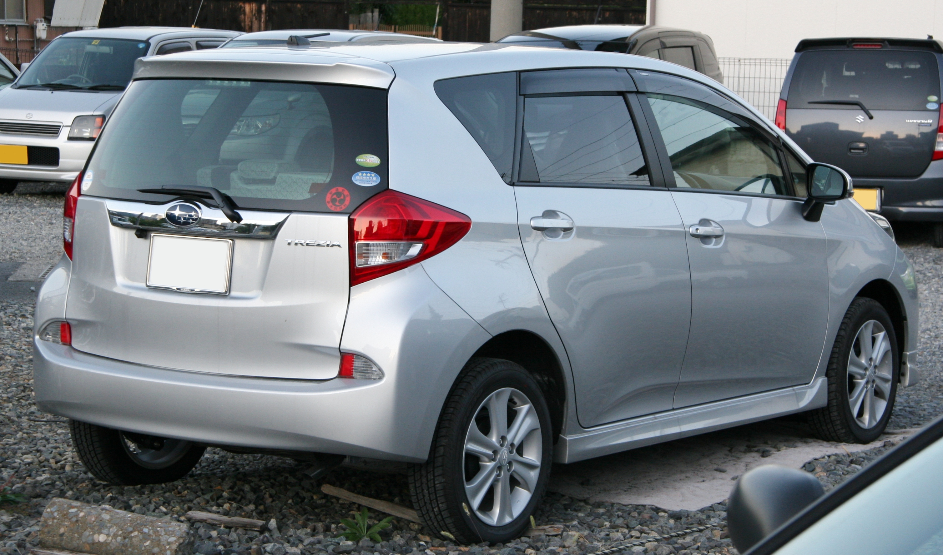 Subaru Trezia